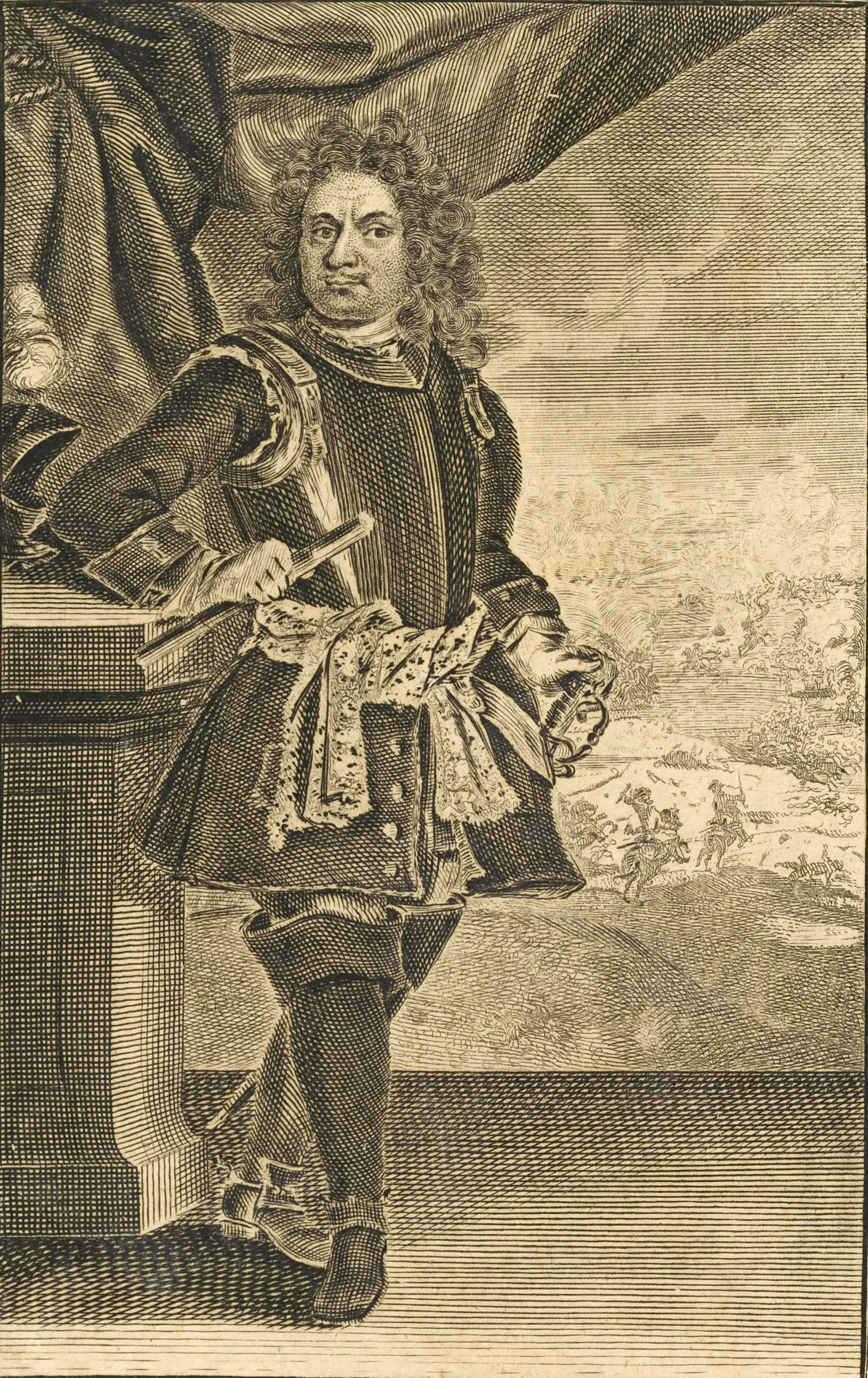 Magnus Stenbock in 1713 by Martin Bernigeroth.